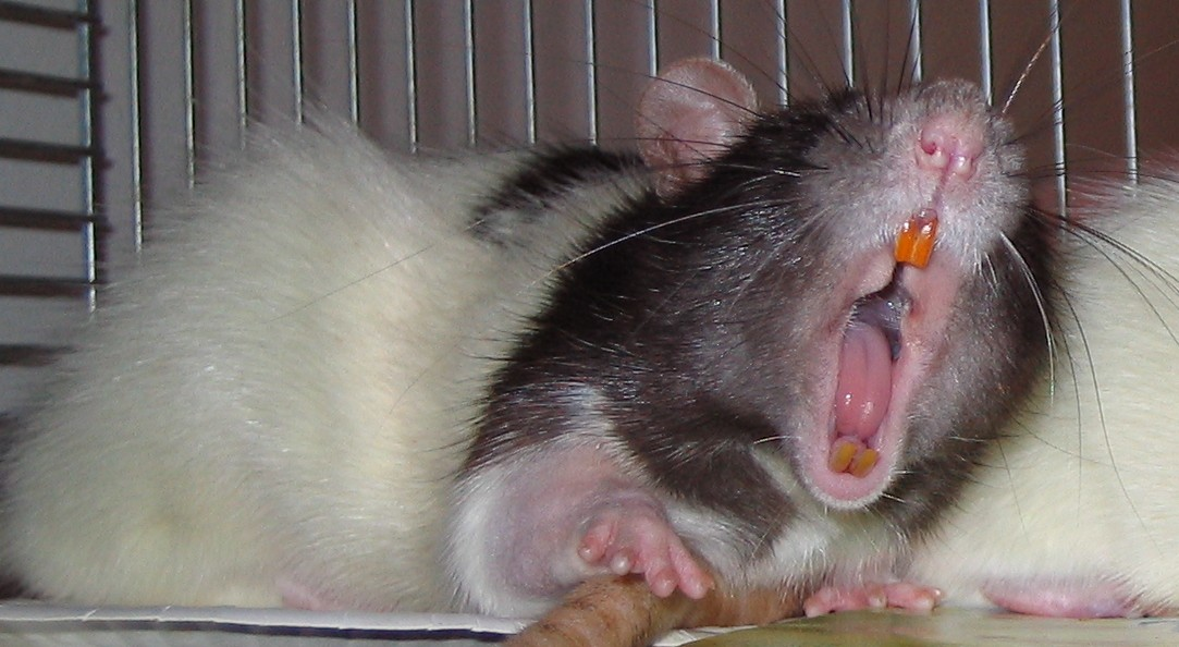 A photo of a yawning pet rat, taken by me, Andreas Rejbrand, 2006.